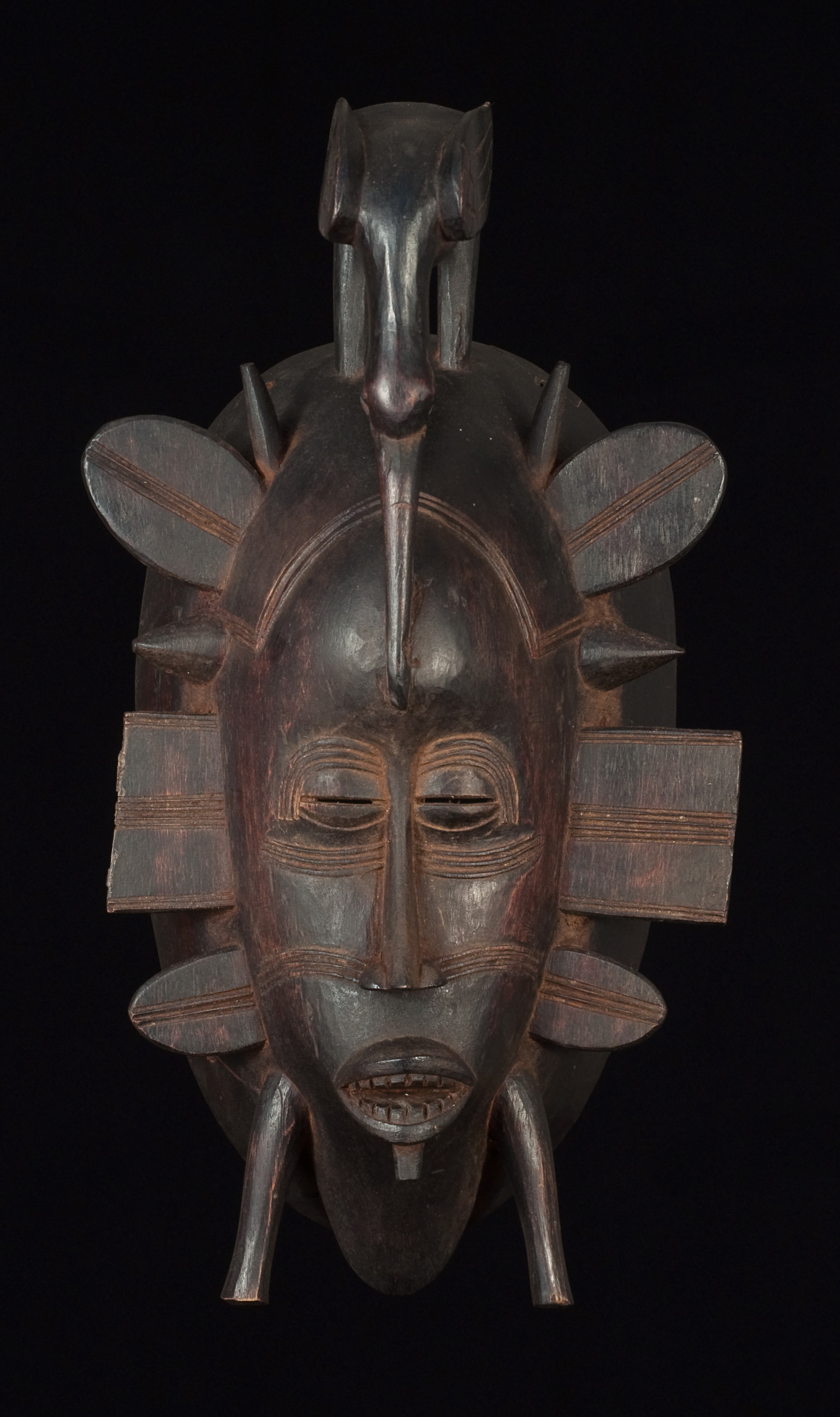 Senoufo mask